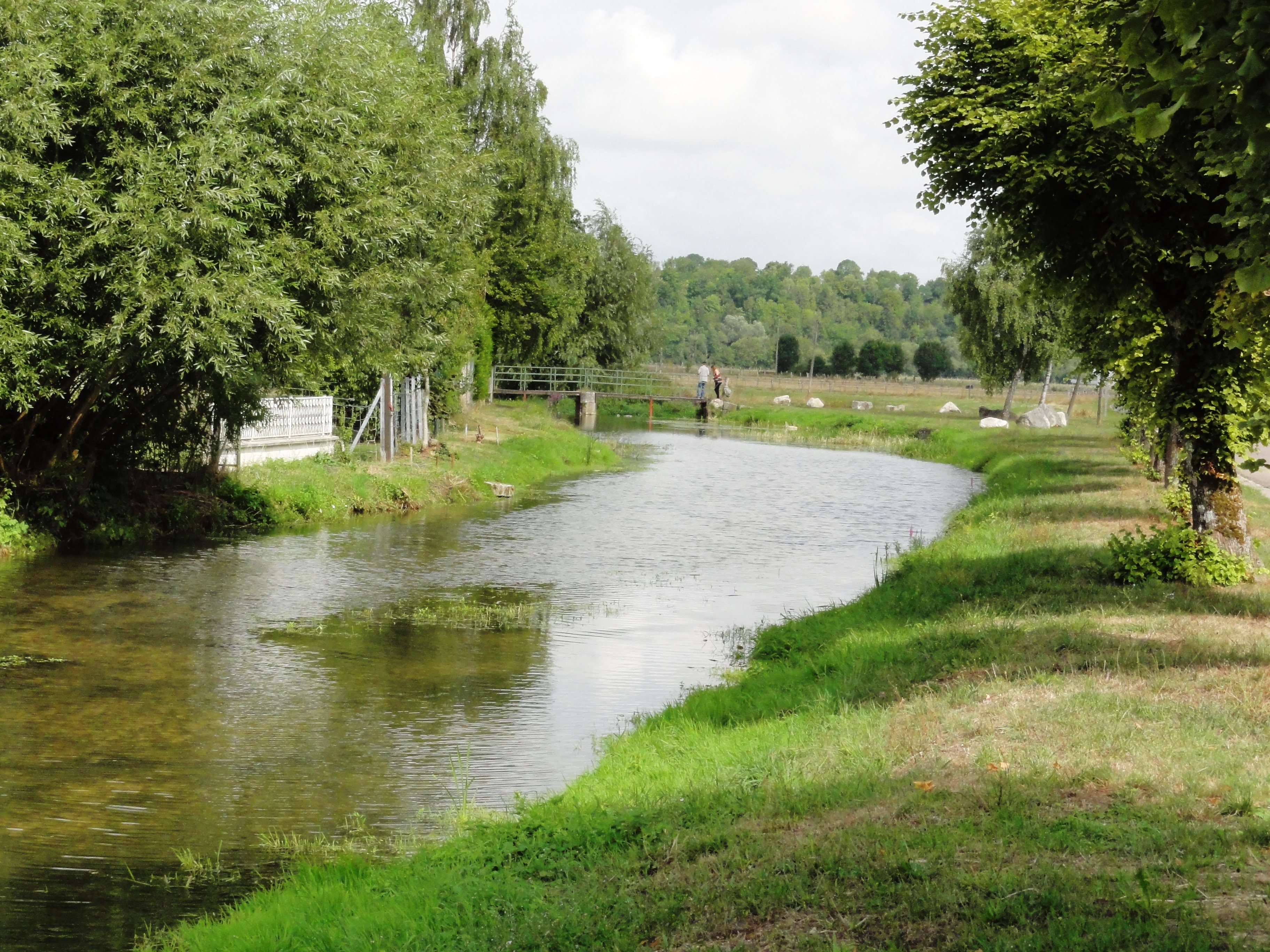 Rigny-la-Salle (Meuse) Aroffe (Ruisseau de la Beaumelle)